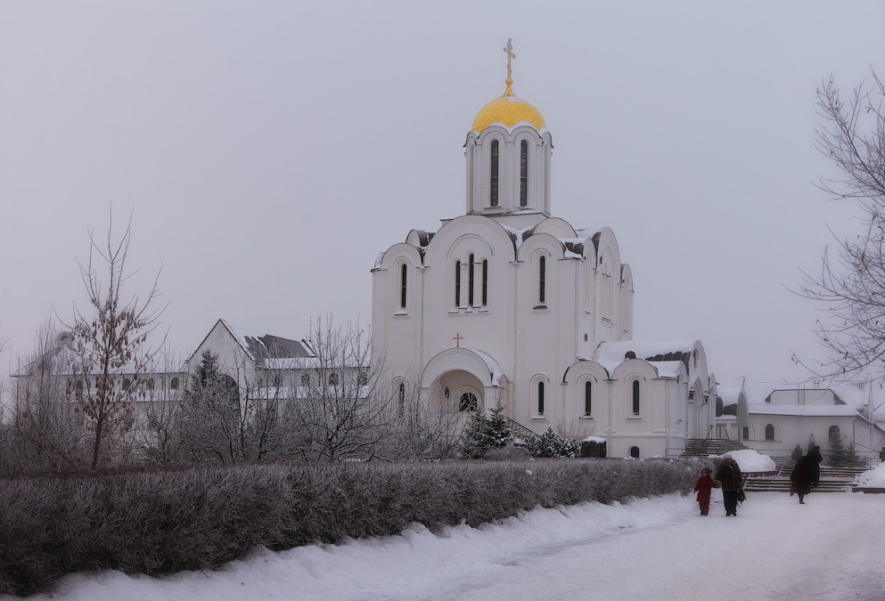 Euphrosyne's of Polotsk Orthodox church, Minsk, Belarus